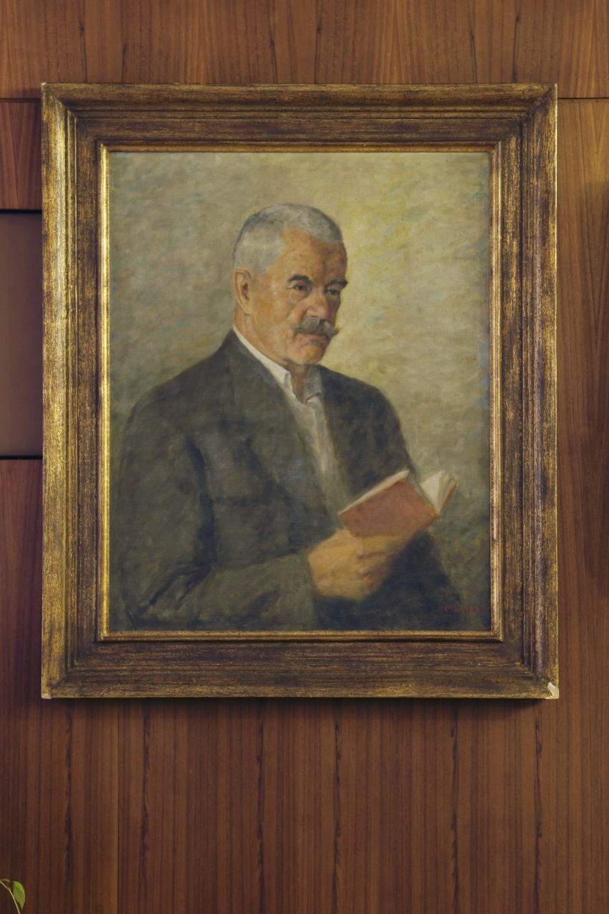 Silesian museum - PB 3